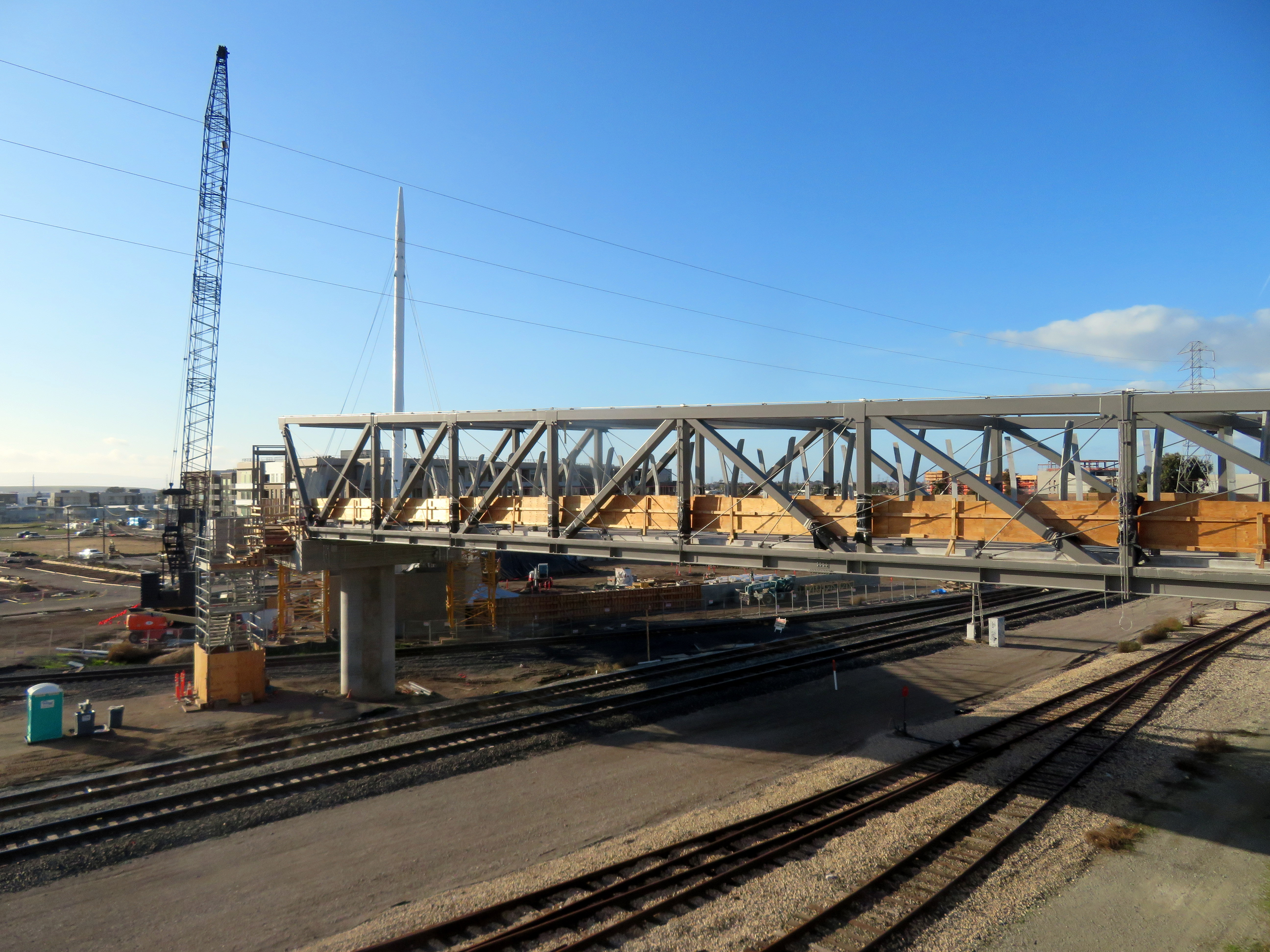 Footbridge construction at Warm Springs/South Fremont station in January 2020